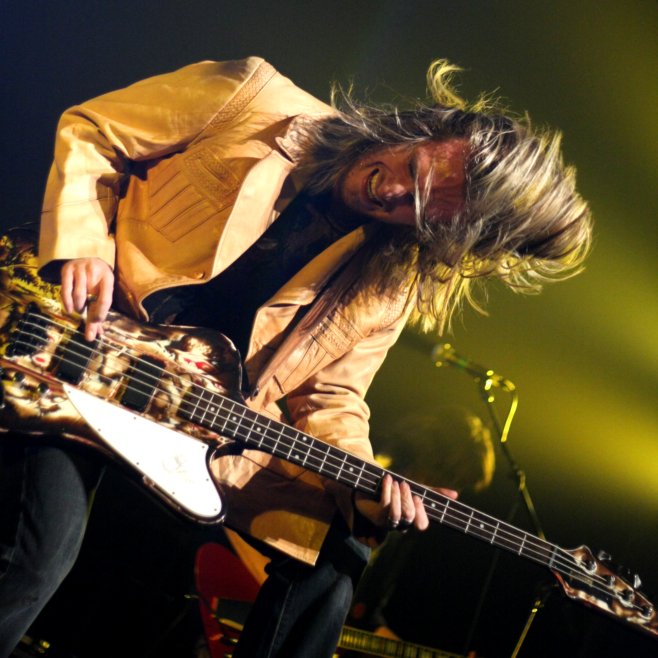 Josh Reedy of DecembeRadio performing at the North Charleston Performing Arts Center in North Charleston, South Carolina, on March 6, 2008.